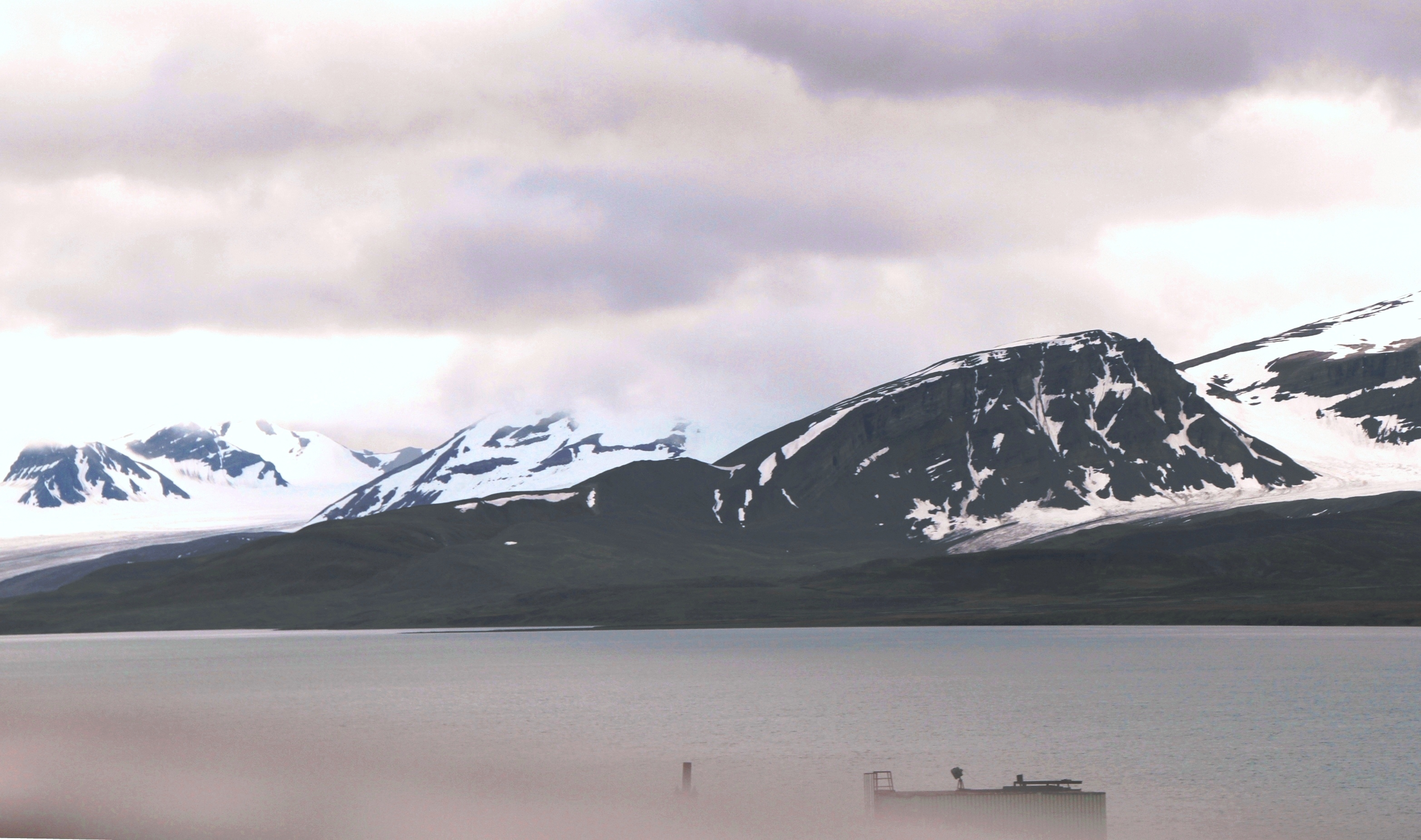 Image from the Green Harbour (Grønfjorden) in western Spitsbergen - seen from the settlement of Barentsburg in the east towards west. The image shows the mountainous areas on the western side of the fjord.